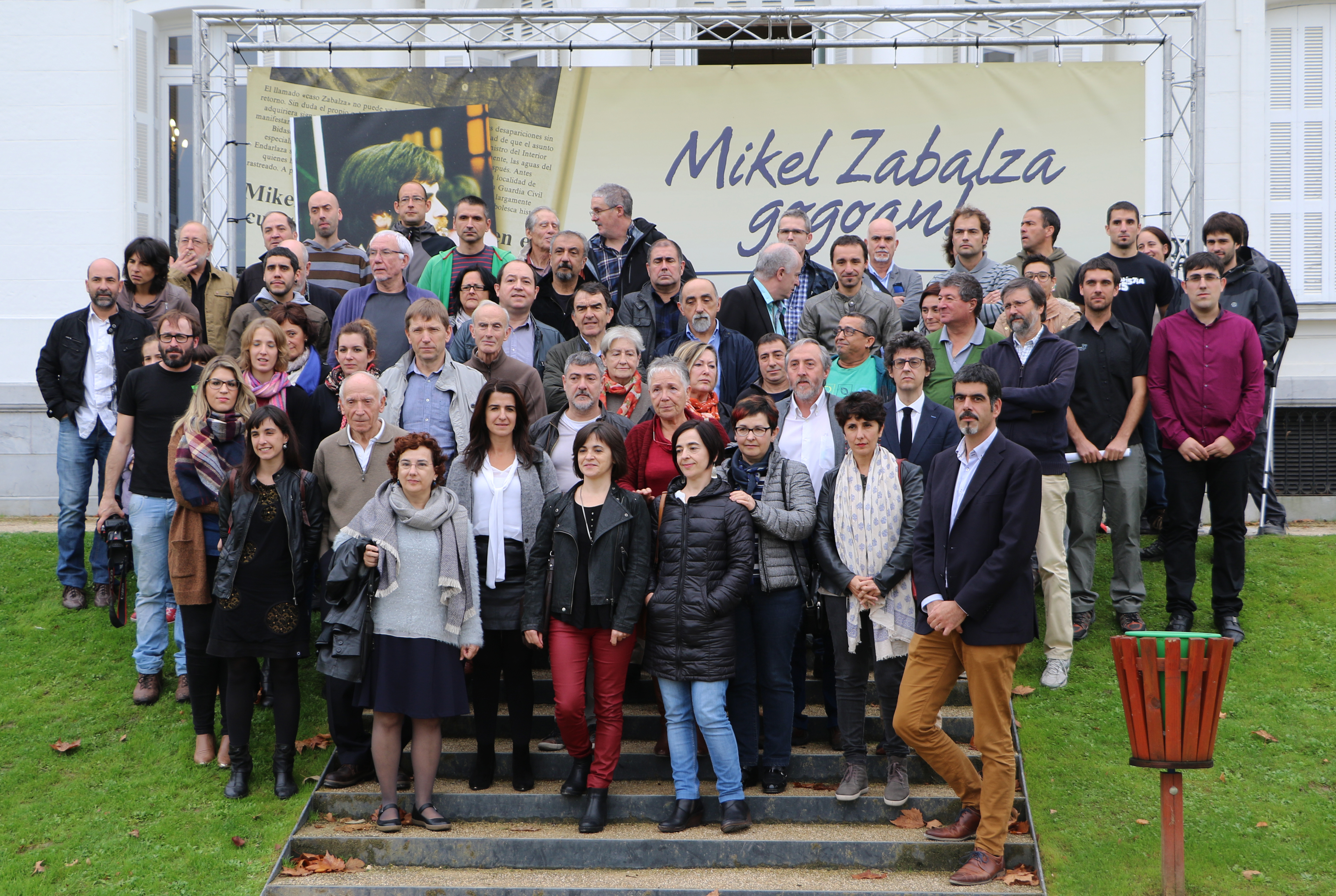 Mikel Zabaltza remenbering